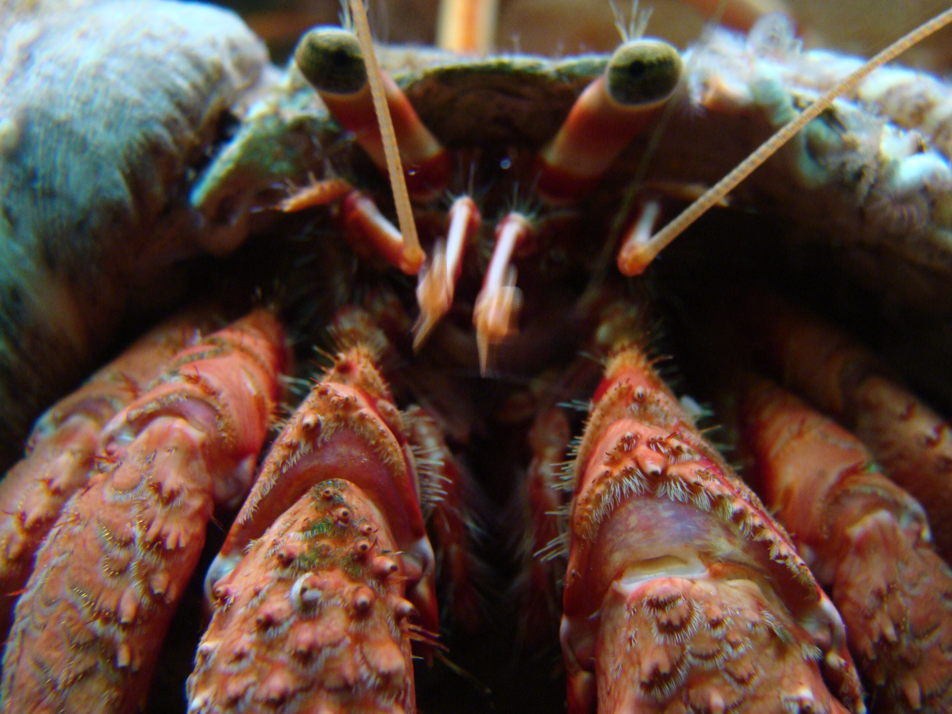 Pagurus bernhardus (hermit crab) in Sala Maremagnum of Aquarium Finisterrae (House of the Fishes), in Corunna, Galicia, Spain.